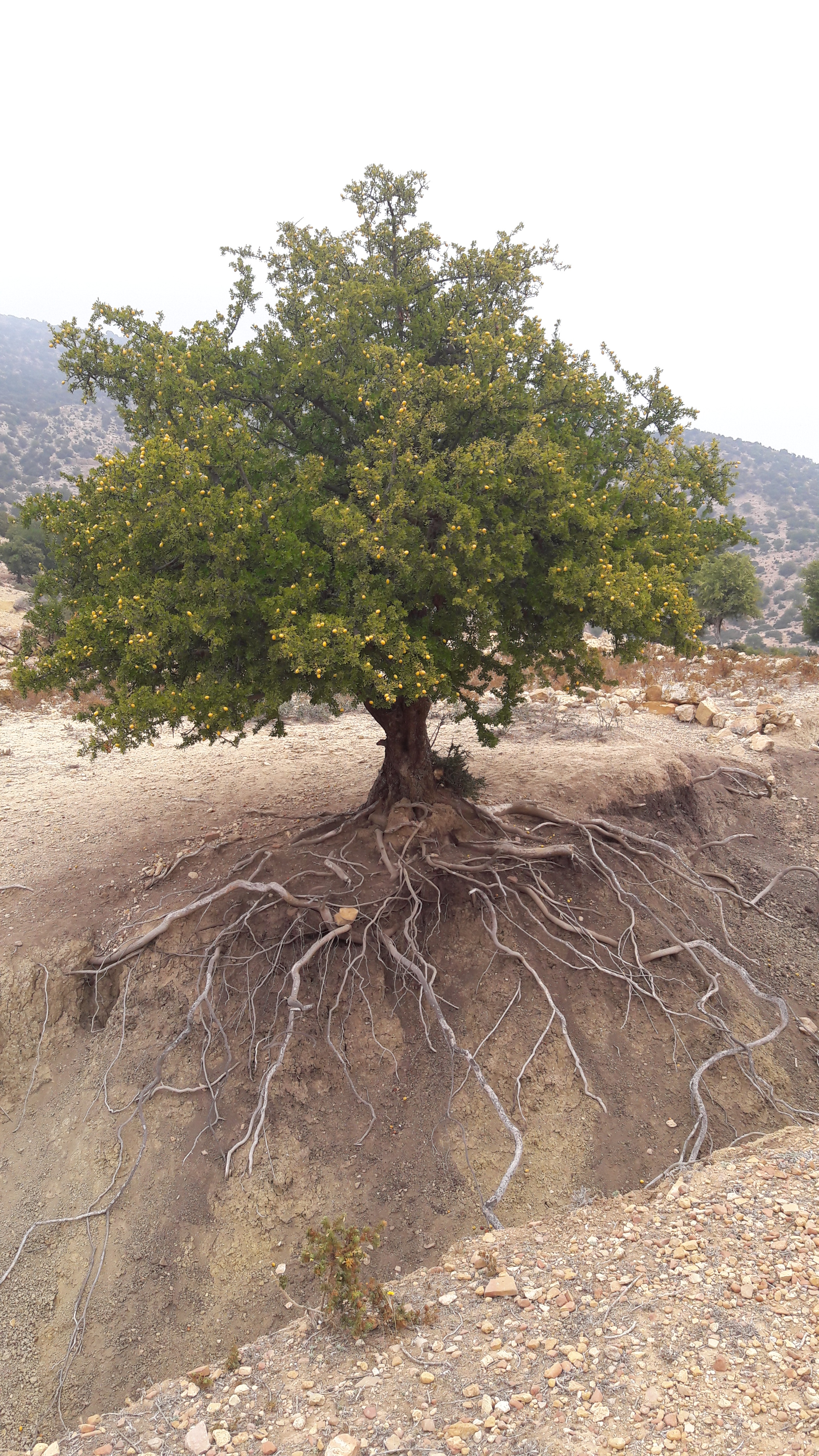 Argan tree (Argania spinosa) at Agadir